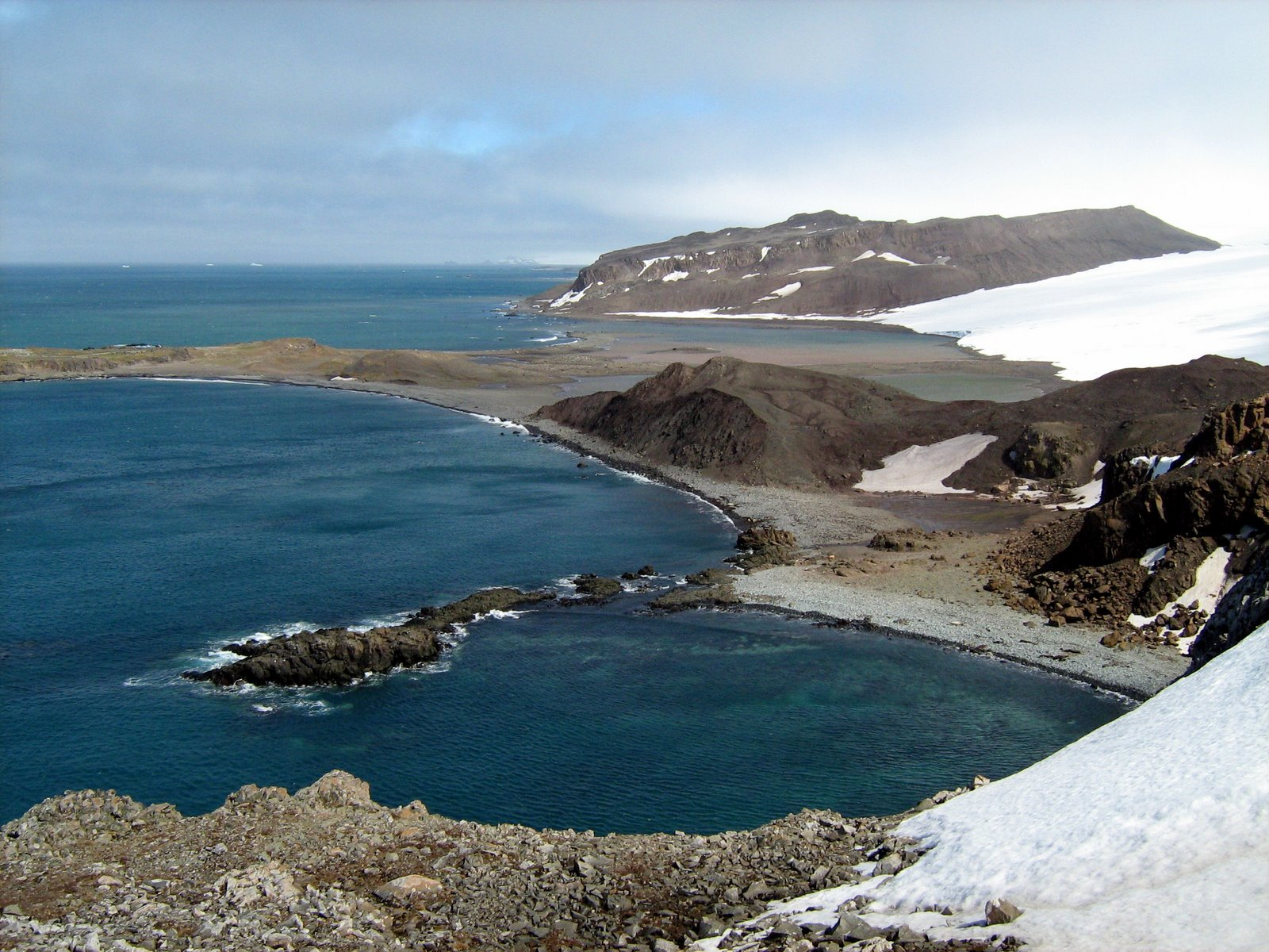 Windy Glacier, King George Island